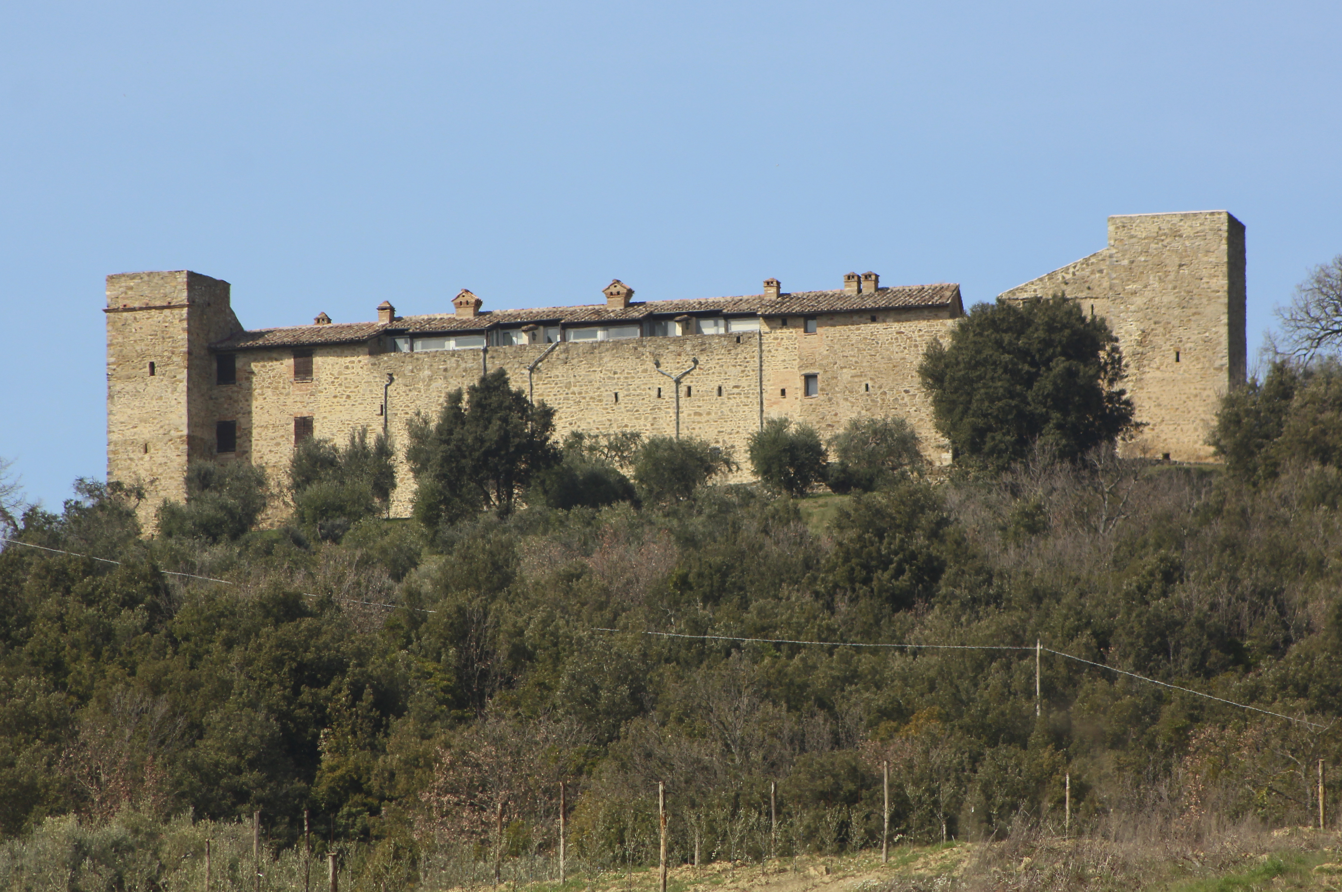 Montelagello (Monte Lagello), hamlet of Marsciano, Province of Perugia, Umbria, Italy